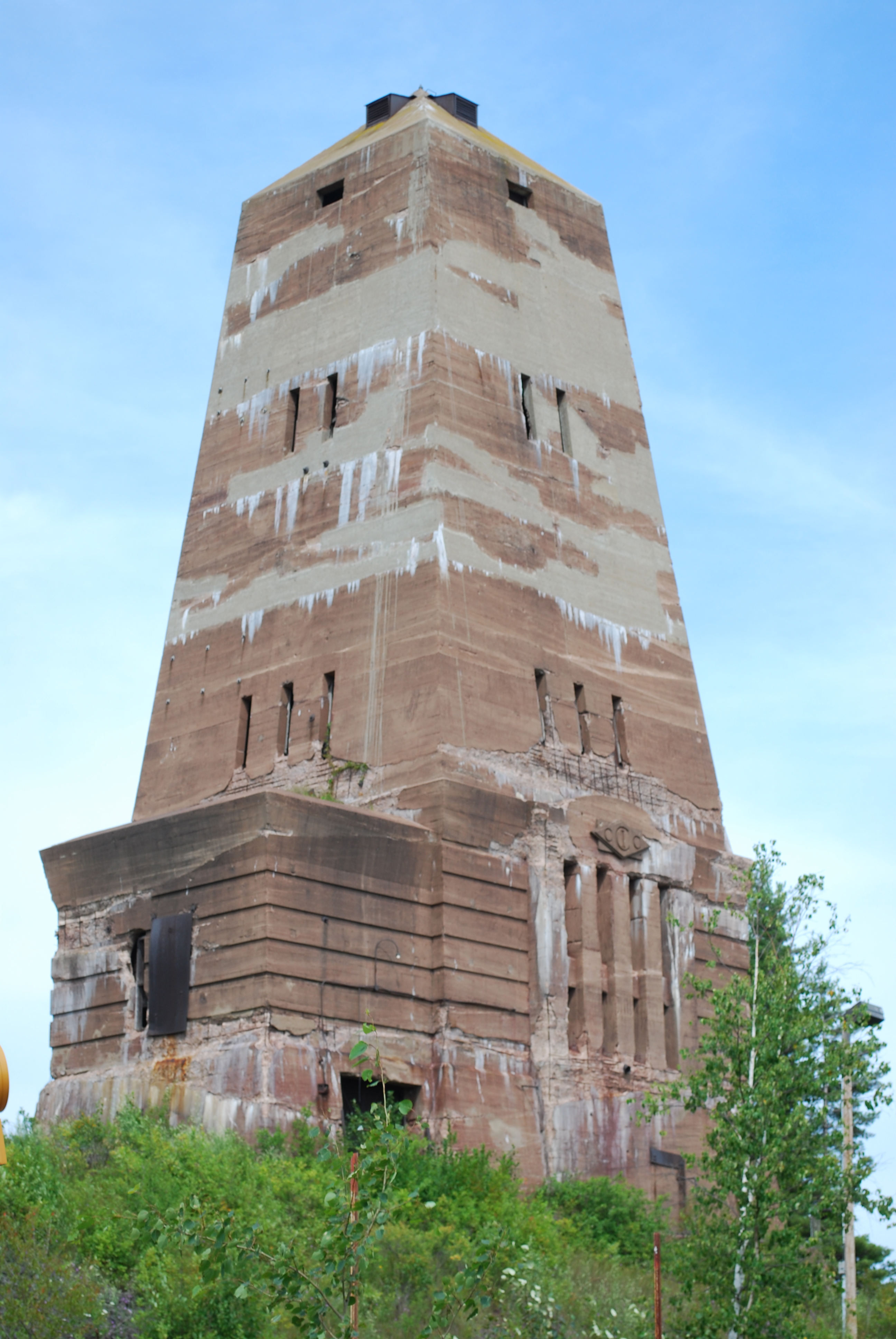 Old Mine Head-- Cliffs Shaft Mine